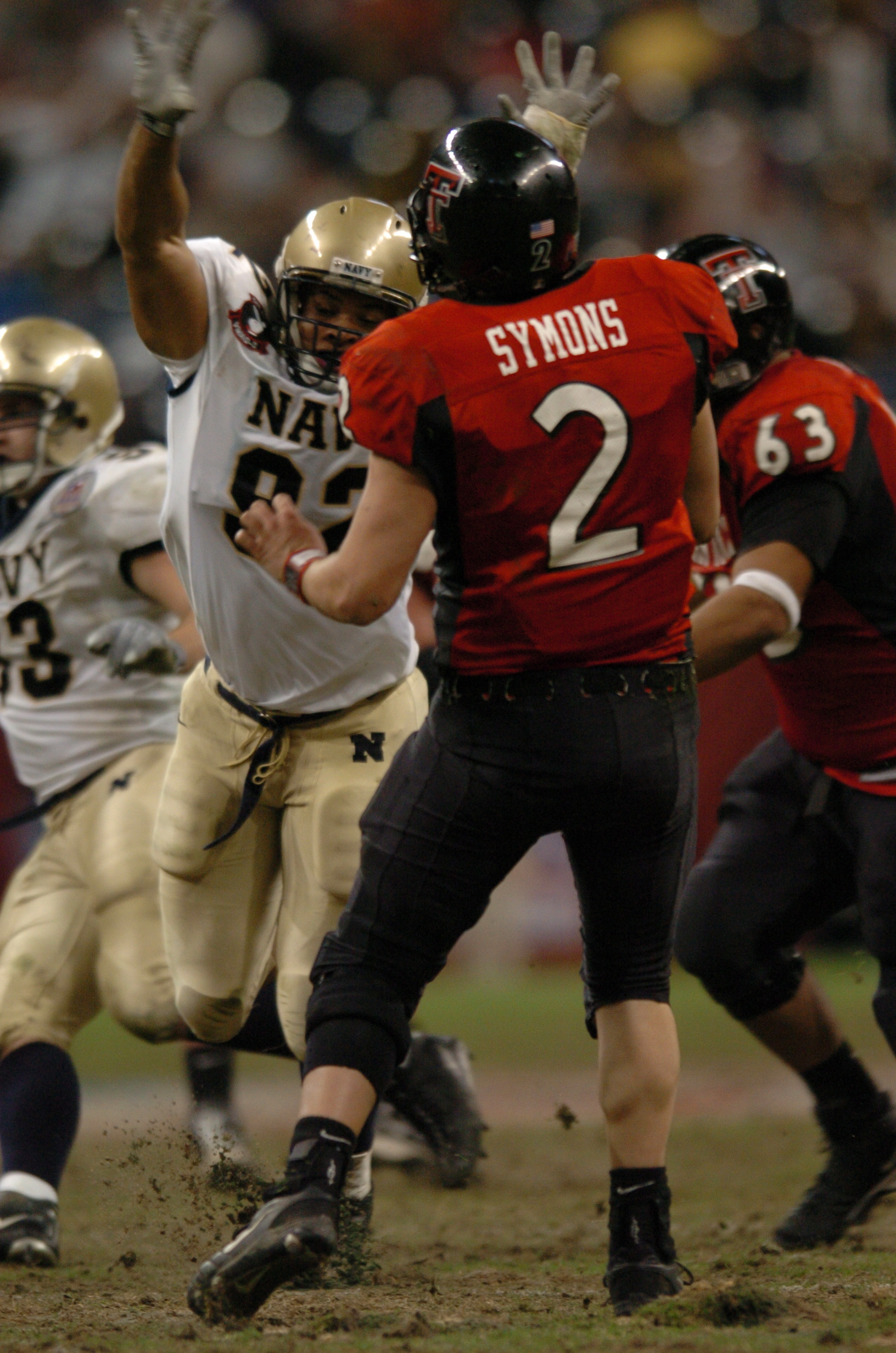 Houston, Texas (Dec. 30, 2003) -- Navy defensive end Pierre Moss leaps in an attempt at blocking a pass from Texas Tech quarterback B. J. Symons during the Houston Bowl at Reliant Stadium in Houston, Texas. The Midshipmen of the U.S. Naval Academy lost to the Red Raiders, 38-14, leaving Navy with an 8-5 record on the year. Navy boasted the top rushing offense in Division 1-A, while Tech had the nation’s leading passing offense. U.S. Navy photo by Journalist 1st Class James G. Pinsky. (RELEASED)